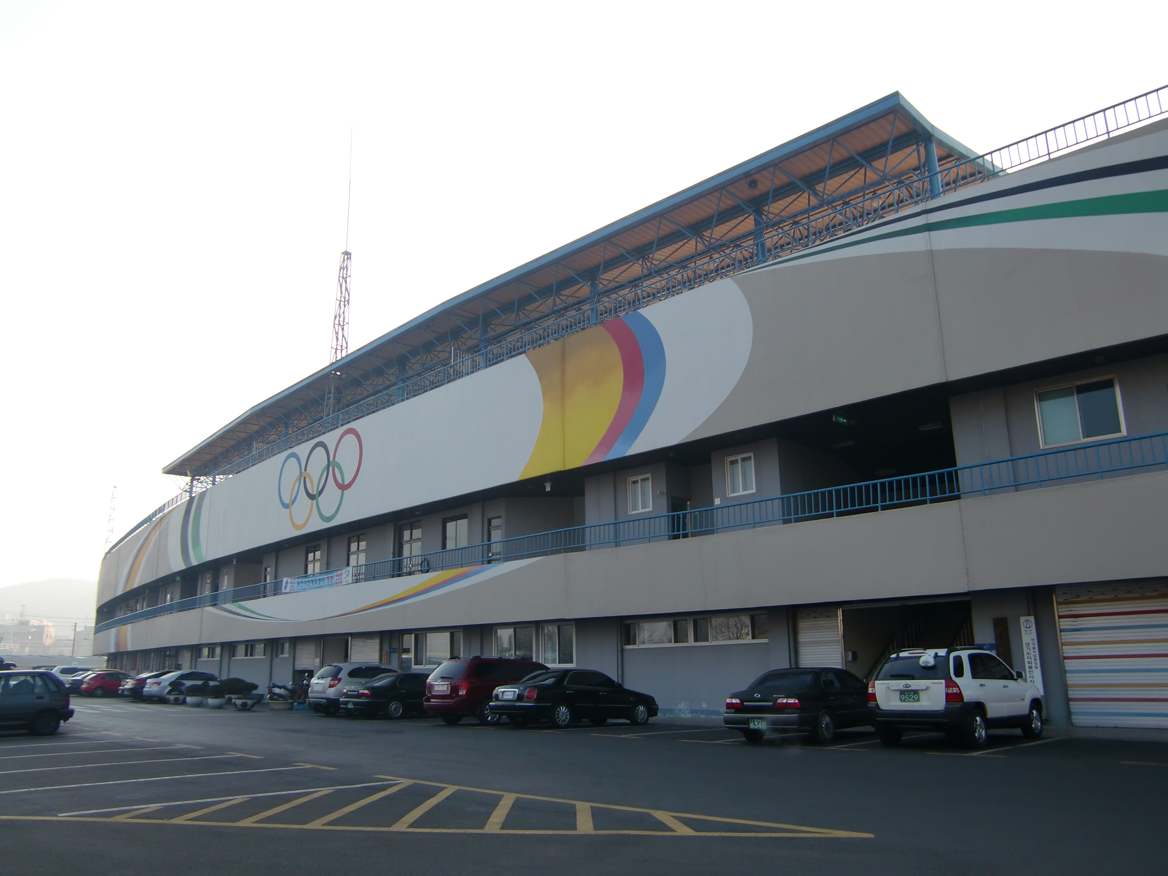 Yongin Sports Complex